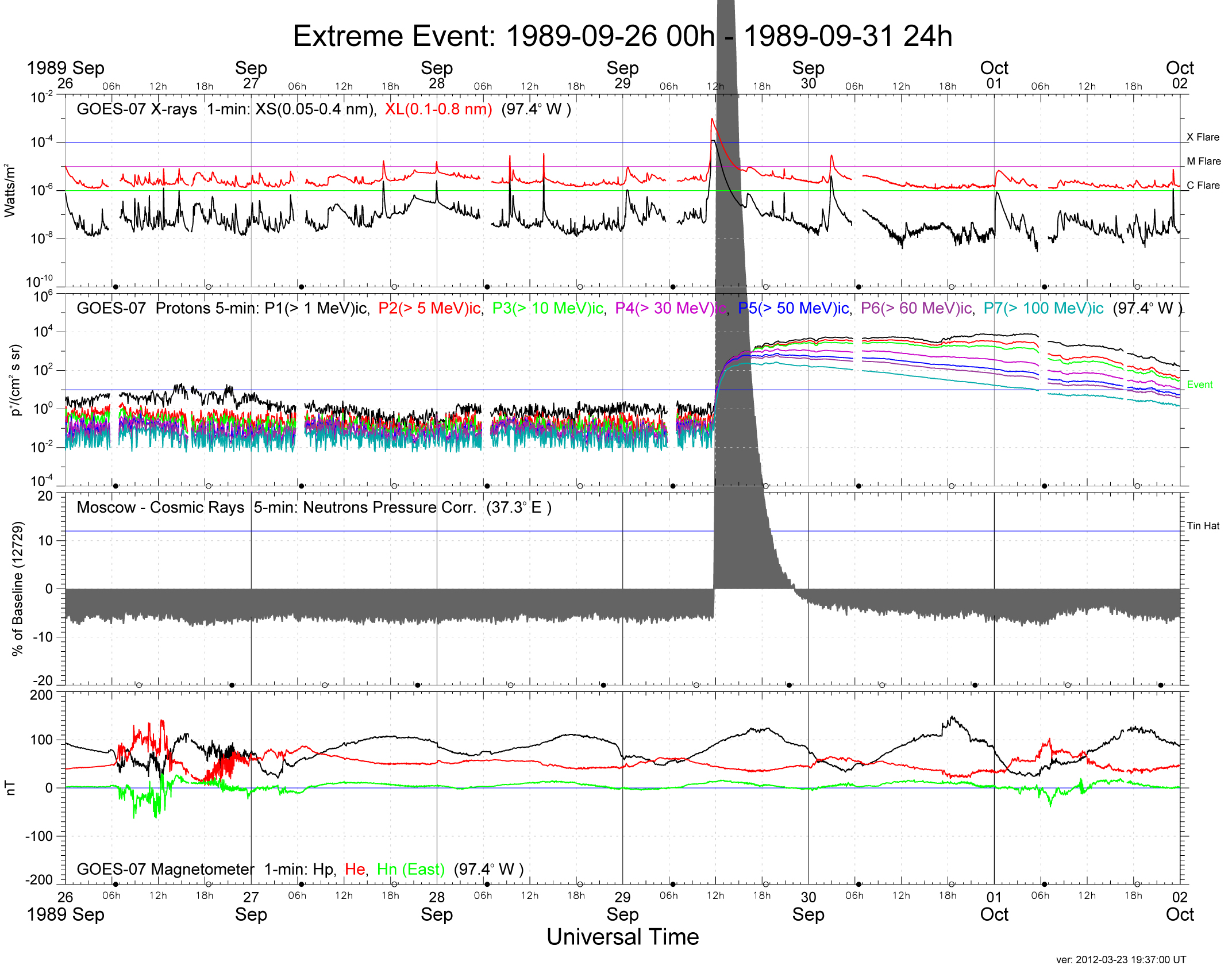 Extreme space weather event September 1989 as seen by GOES Space Environment Monitor and Moscow neutron monitor